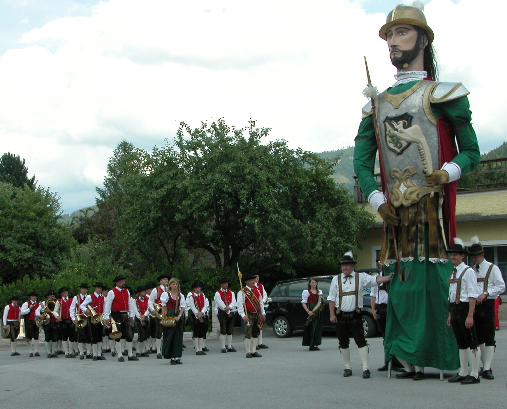 Giant Samoson St.Margarethen Austria (Lungau, Salzburg State)